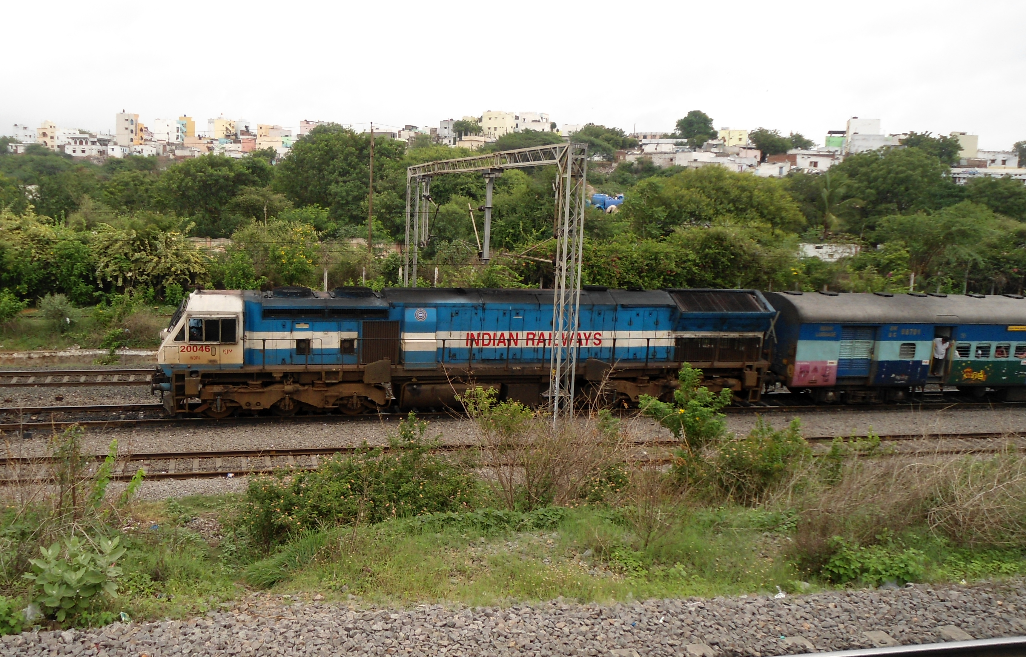 Palnadu Express with WDP4 series loco at Secunderabad